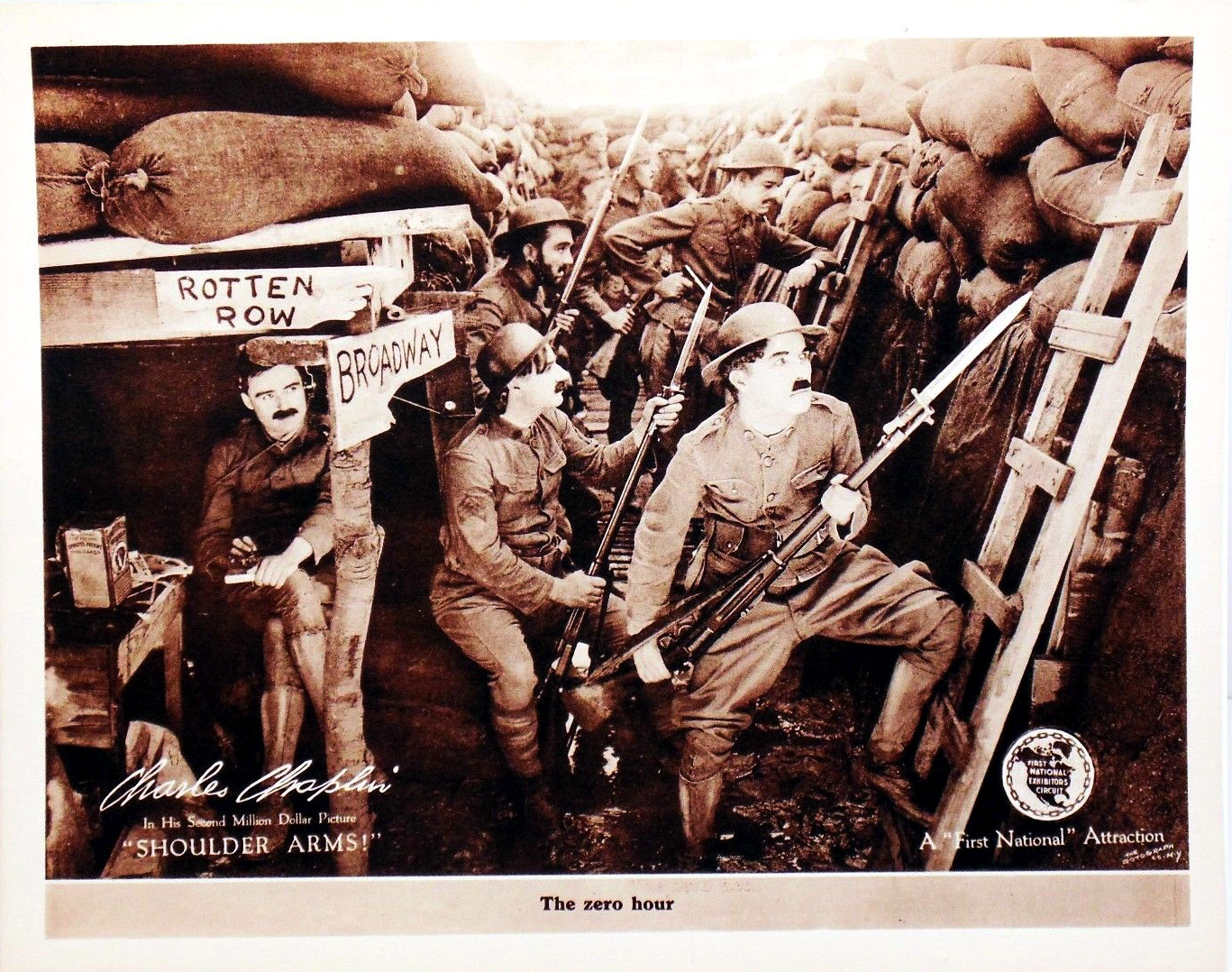 Lobby card for the 1918 film Shoulder Arms.